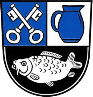 Coat of arms of the Town Wundersleben.